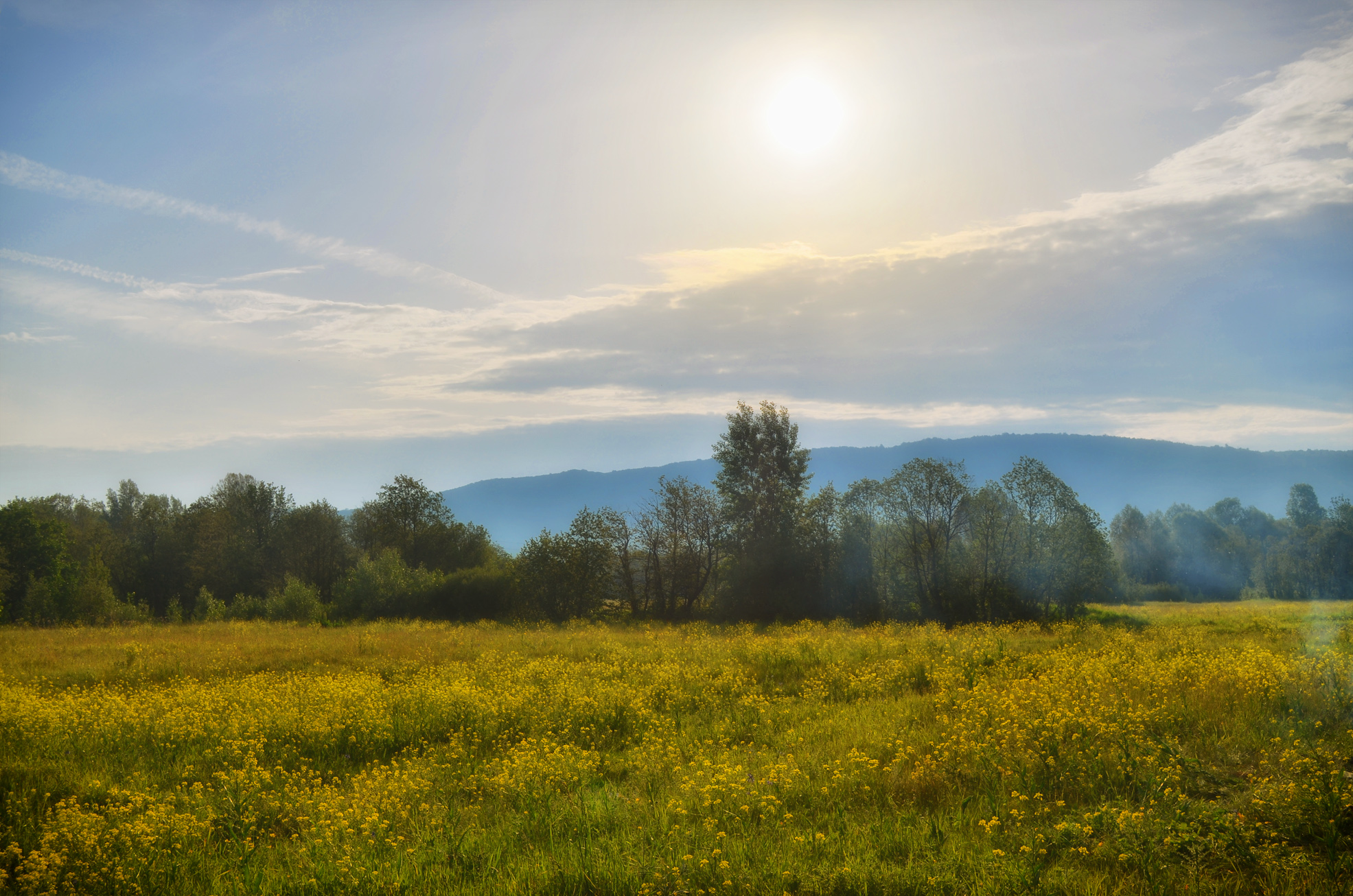 meadow near the village of Ziganovka, Ishimbai rayon (Зигановка (Ишимбайский район)), floodplain of the river Zigan